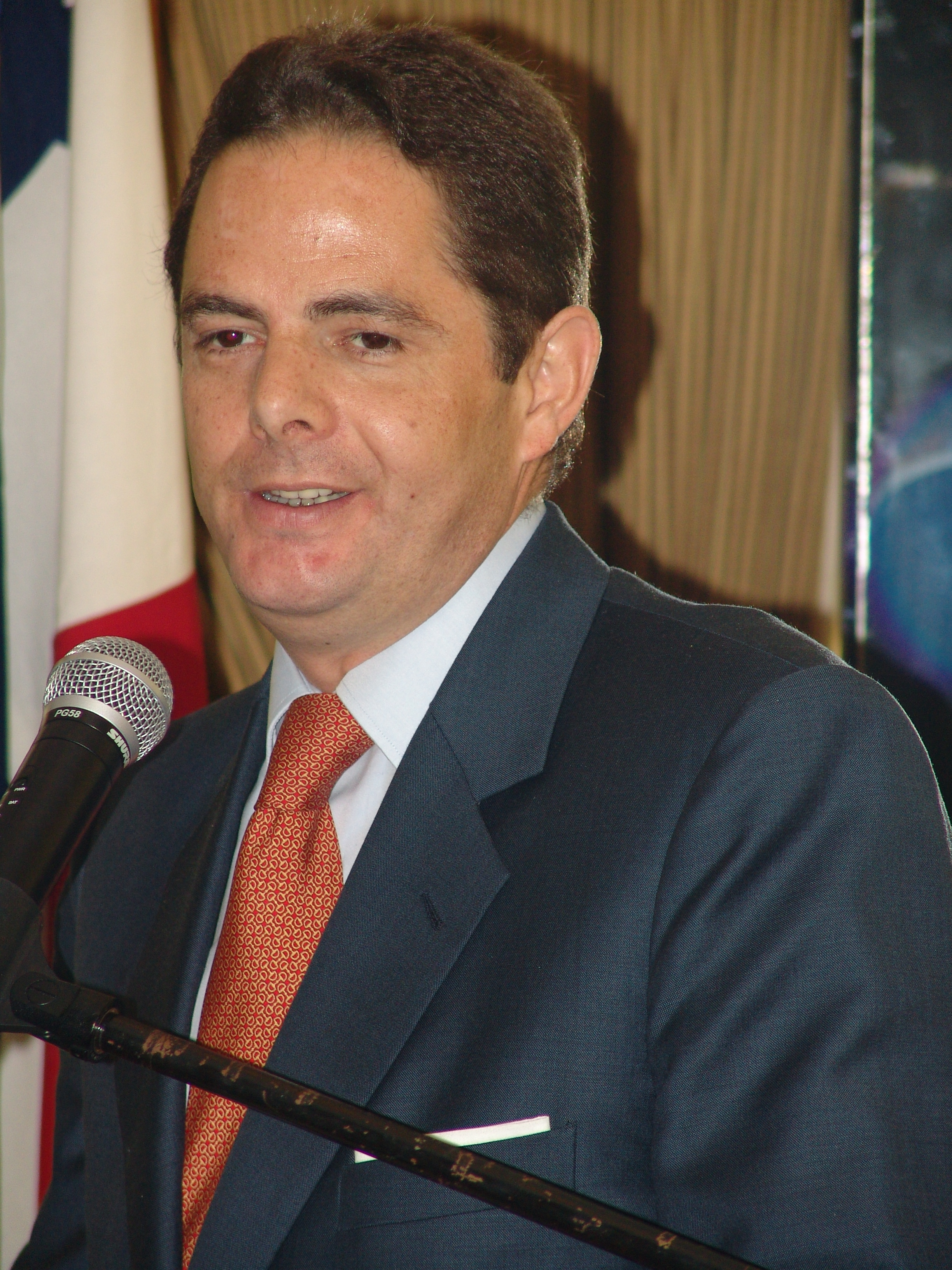 GERMAN VARGAS LLERAS